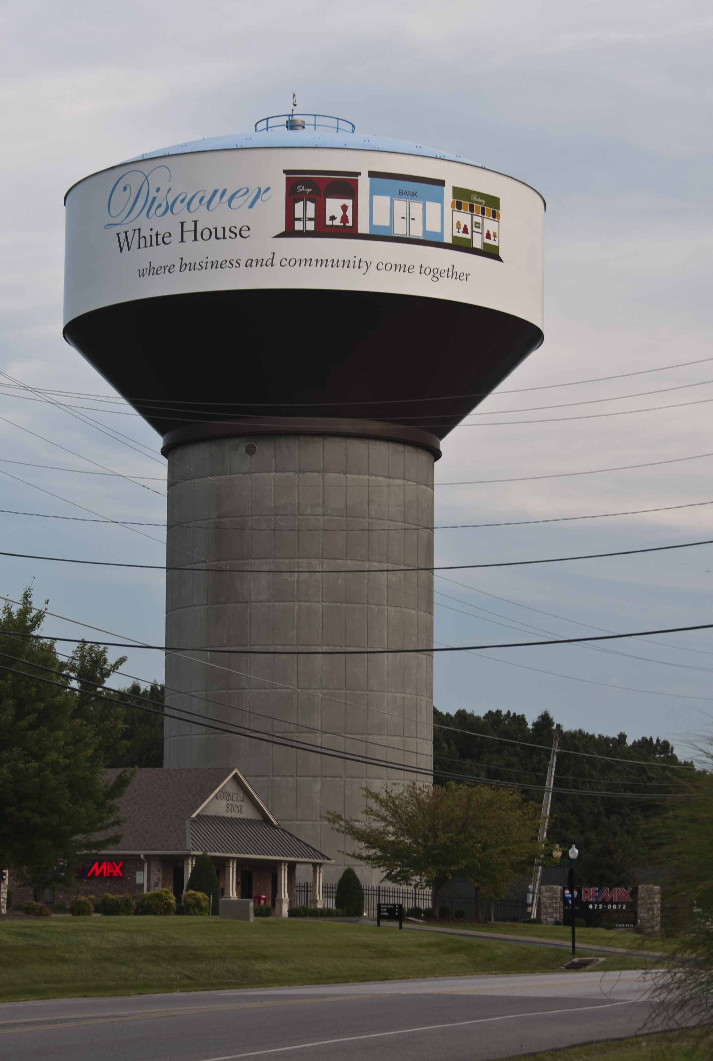 WHUD, Water Tower, in White House, Tennessee. This Water Tower is owned and operated by WHUD, White House Utilities District.